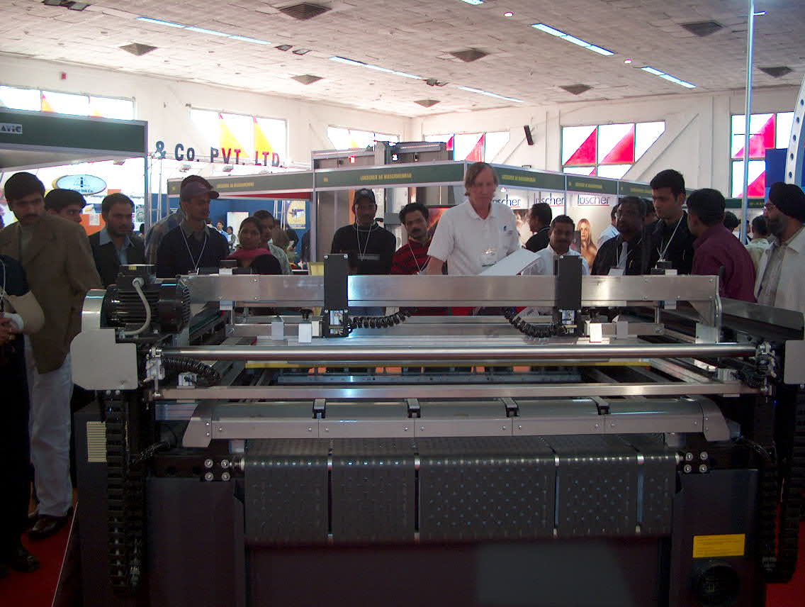 SVECIA Screen printing machine Sveciamatic Type T